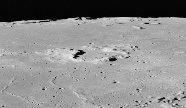 Oblique view of Wolf, on the moon, facing south. Sun elevation 14 deg., spacecraft altitude 119 km.